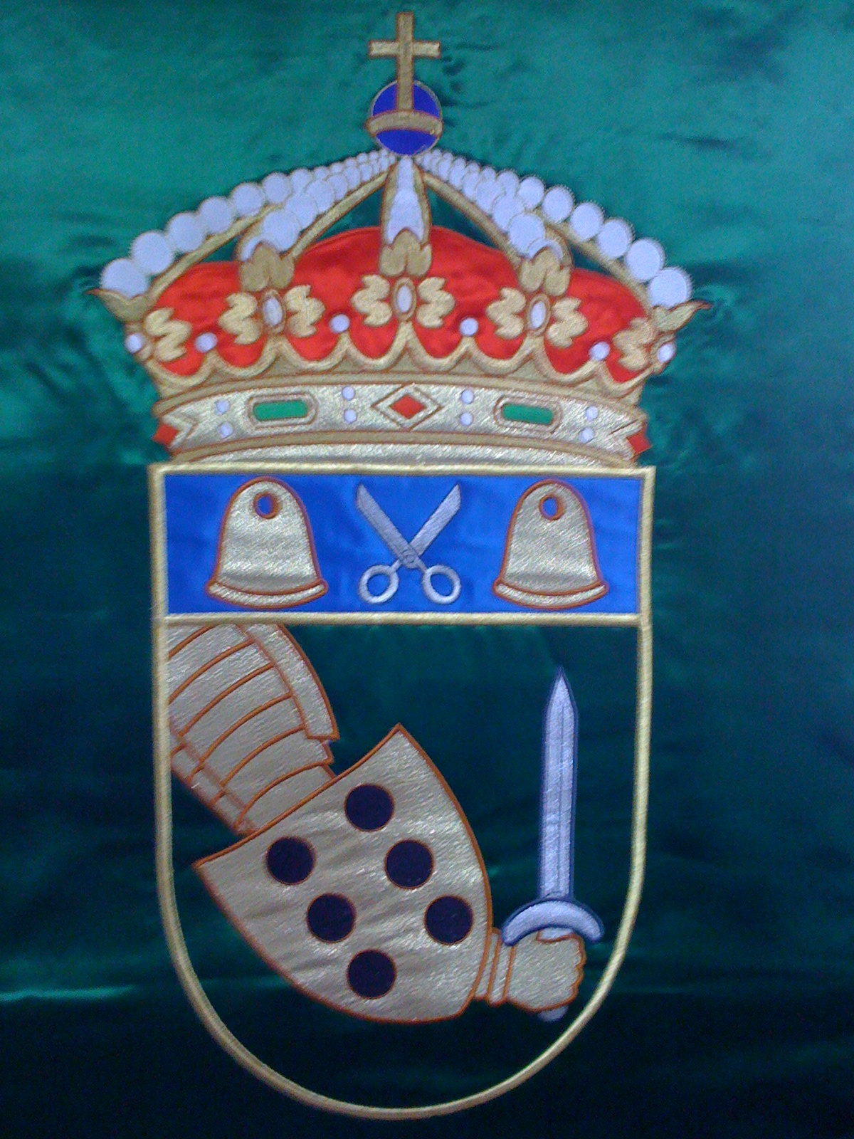 Villanueva de Gómez, Ávila.